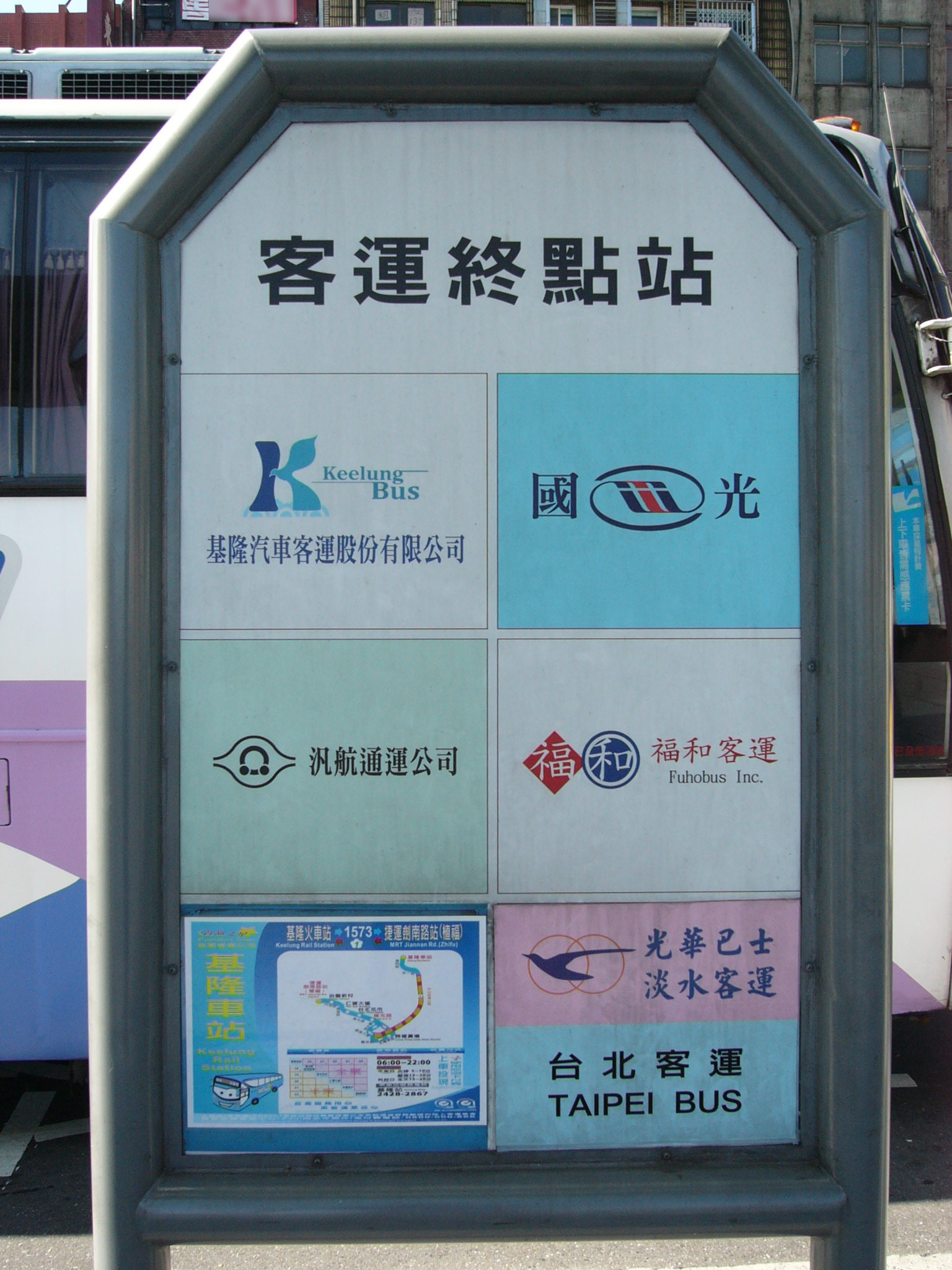 The bus terminal stop board on Zhong 1st Road nearby Keelung Maritime Plaza.